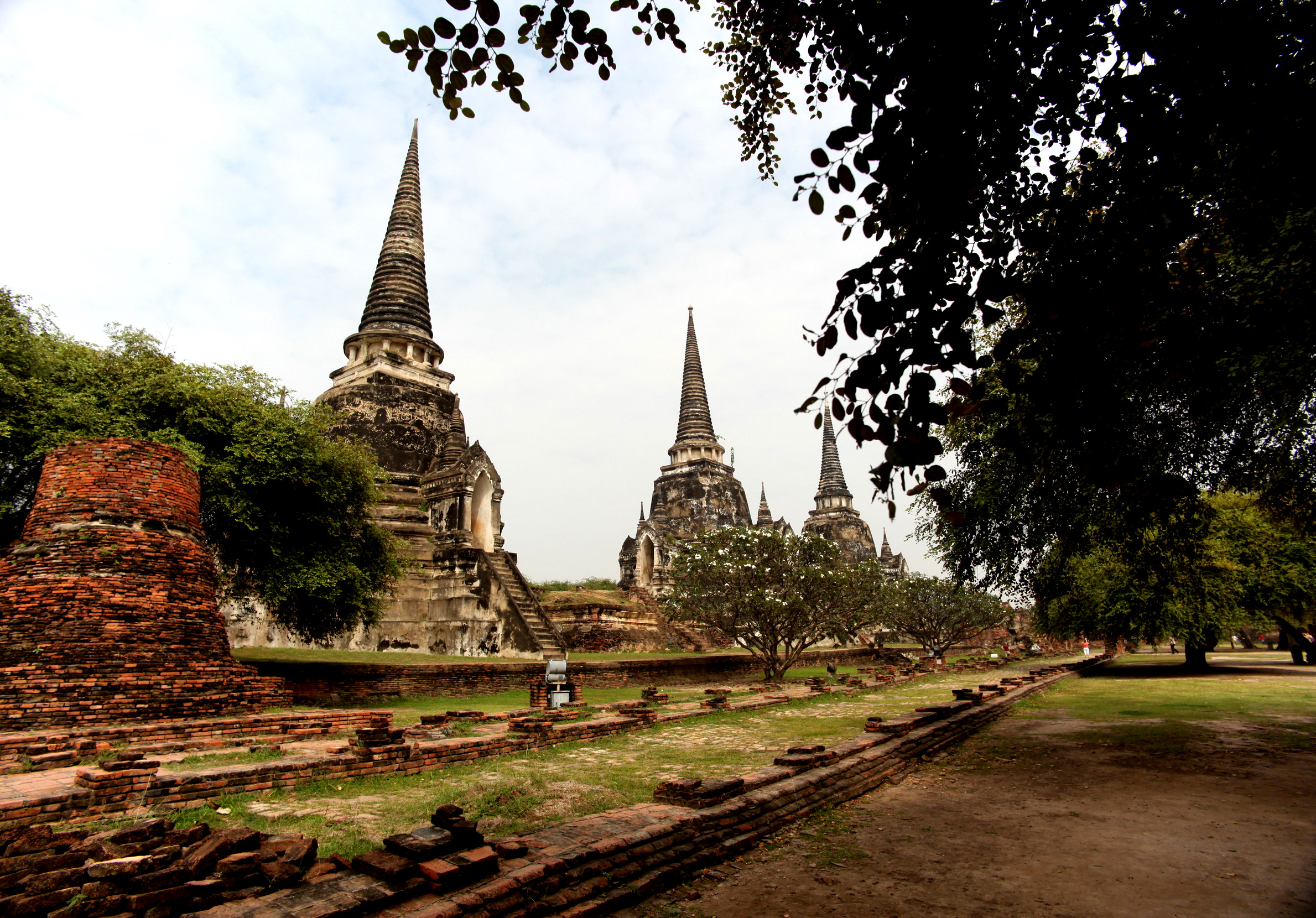 Three pagodas at Ayutthaya Historic Park